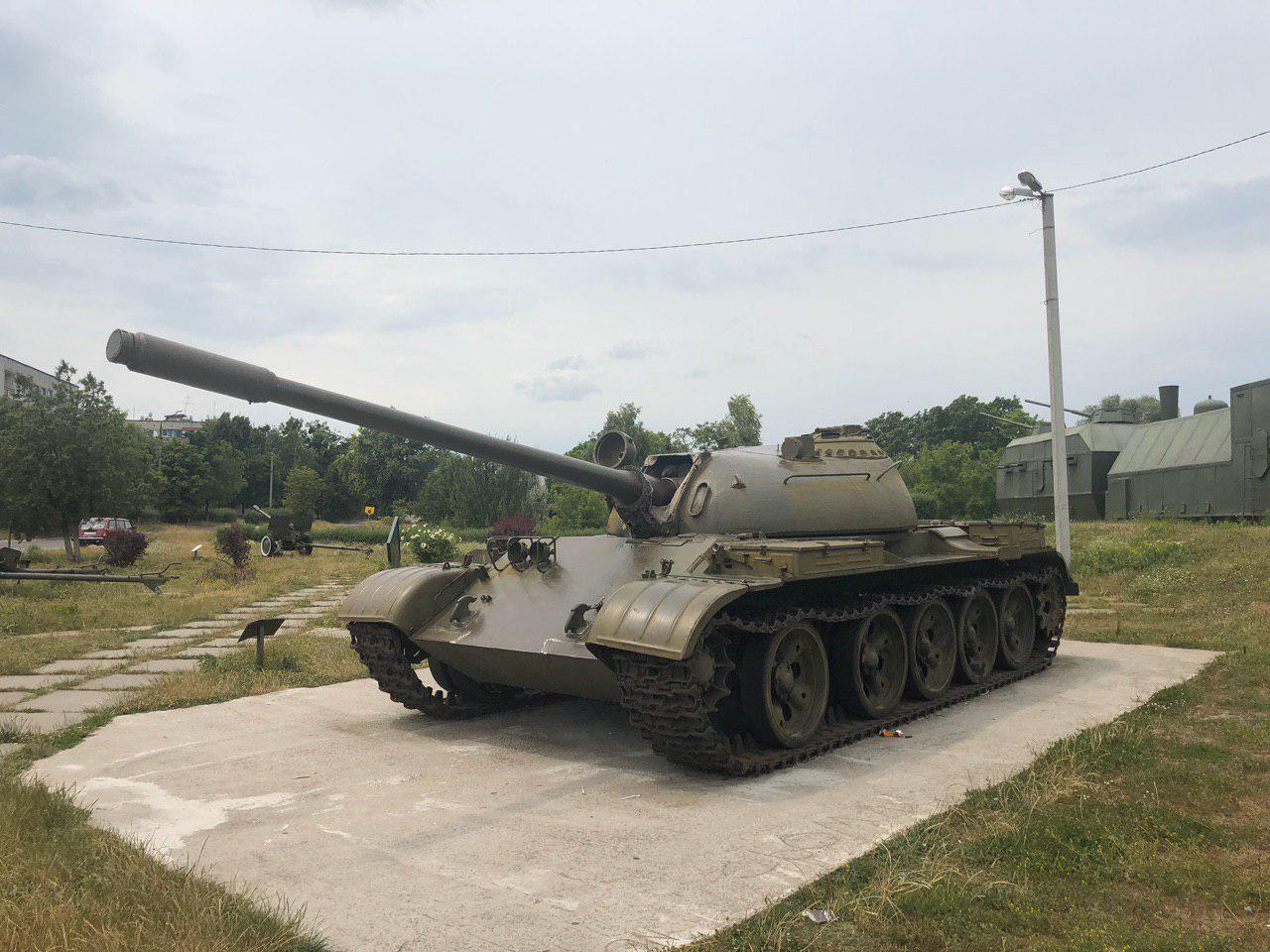 Tank T-55 Kanev